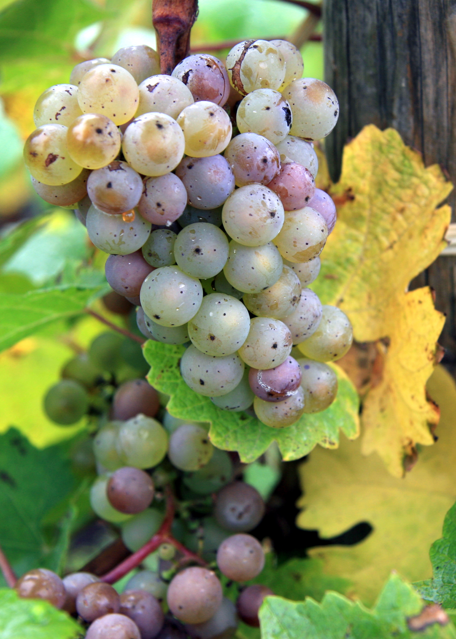 Riesling grapes being infected with Botrytis grey rot that is causing the splitting of berries and color change.